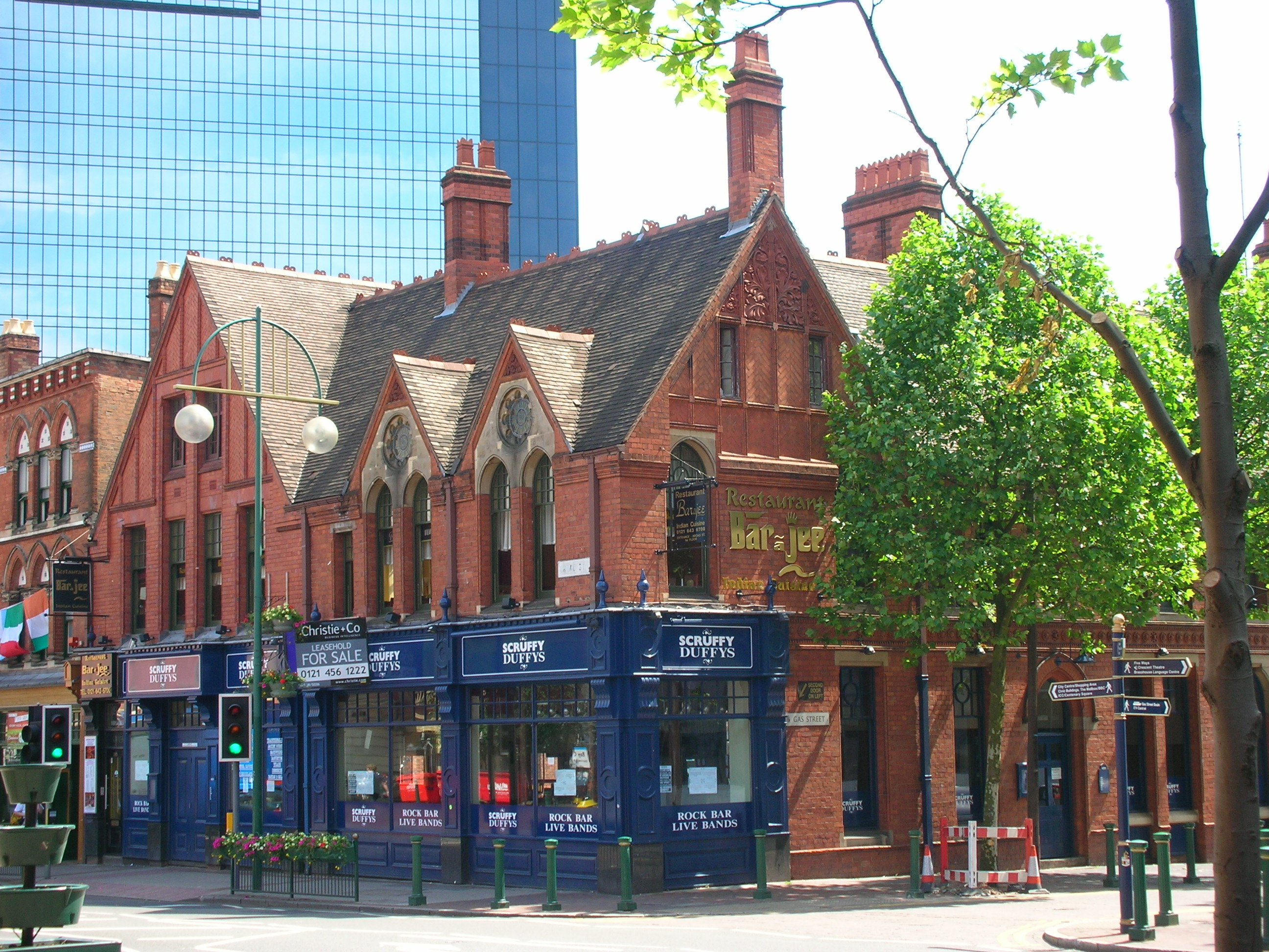 266 Broad Street, Birmingham, England. A grade II listed building over the canal at Gas Street Basin. 1875 Martin & Chamberlain.